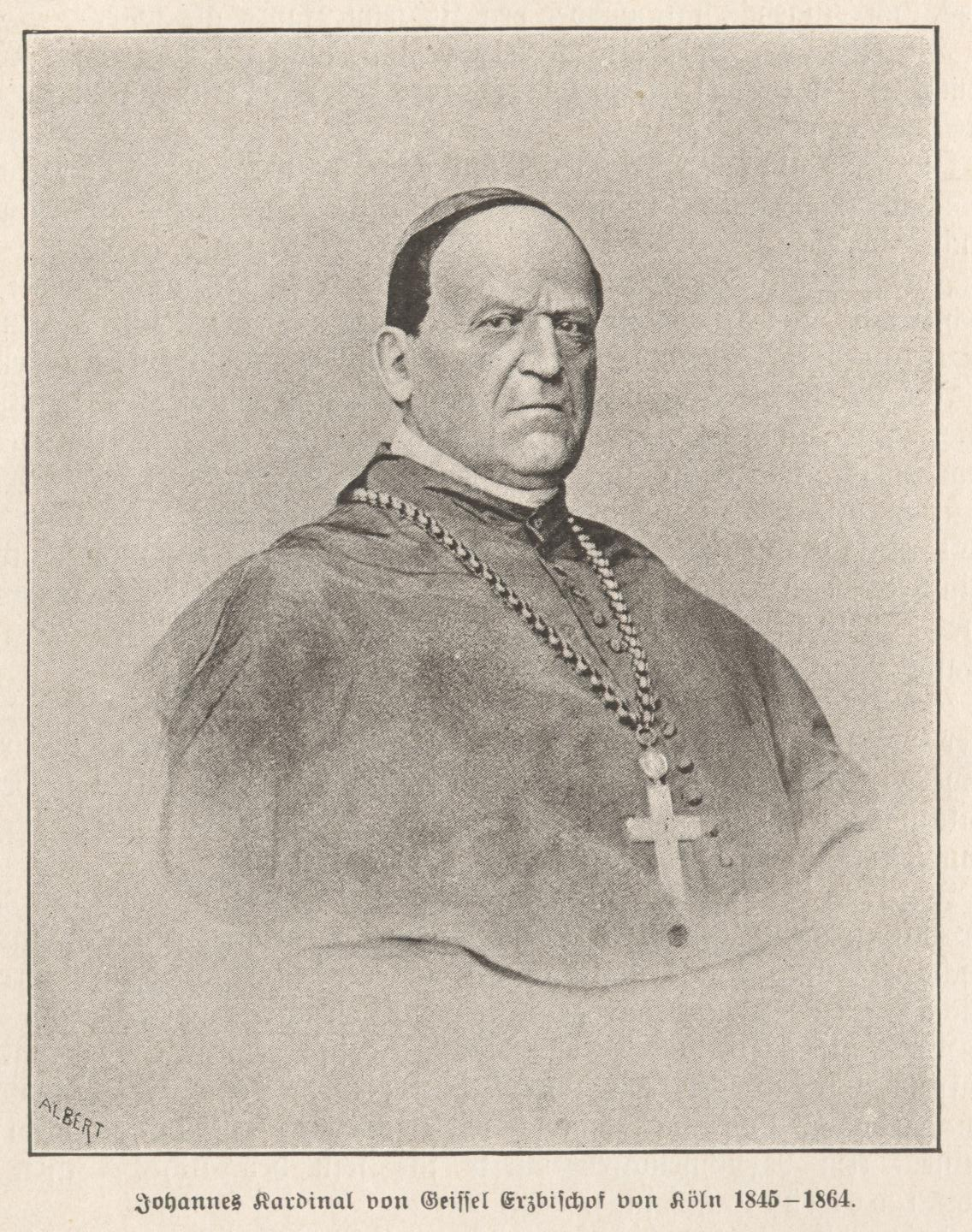 photo of Cardinal Johannes Geissel, Cologne